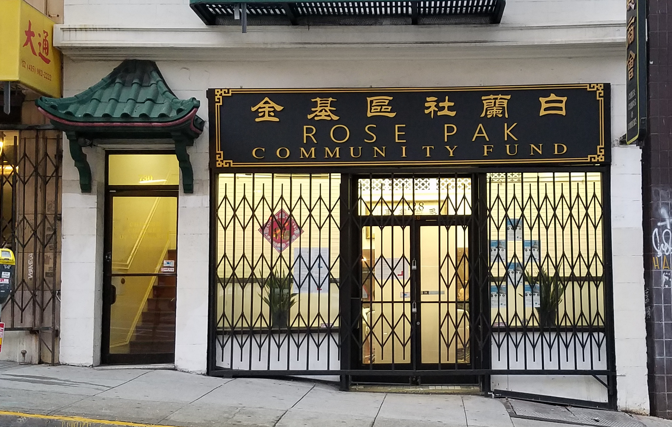 Rose Pak Community Fund (728 Sacramento Street) and Chinese Chamer of Commerce (730 Sacramento Street), San Francisco Chinatown